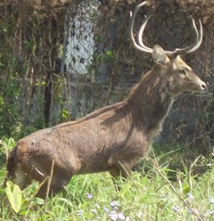 "SANGAI" a rare and endangered species of cervus family found only in Manipur, India.